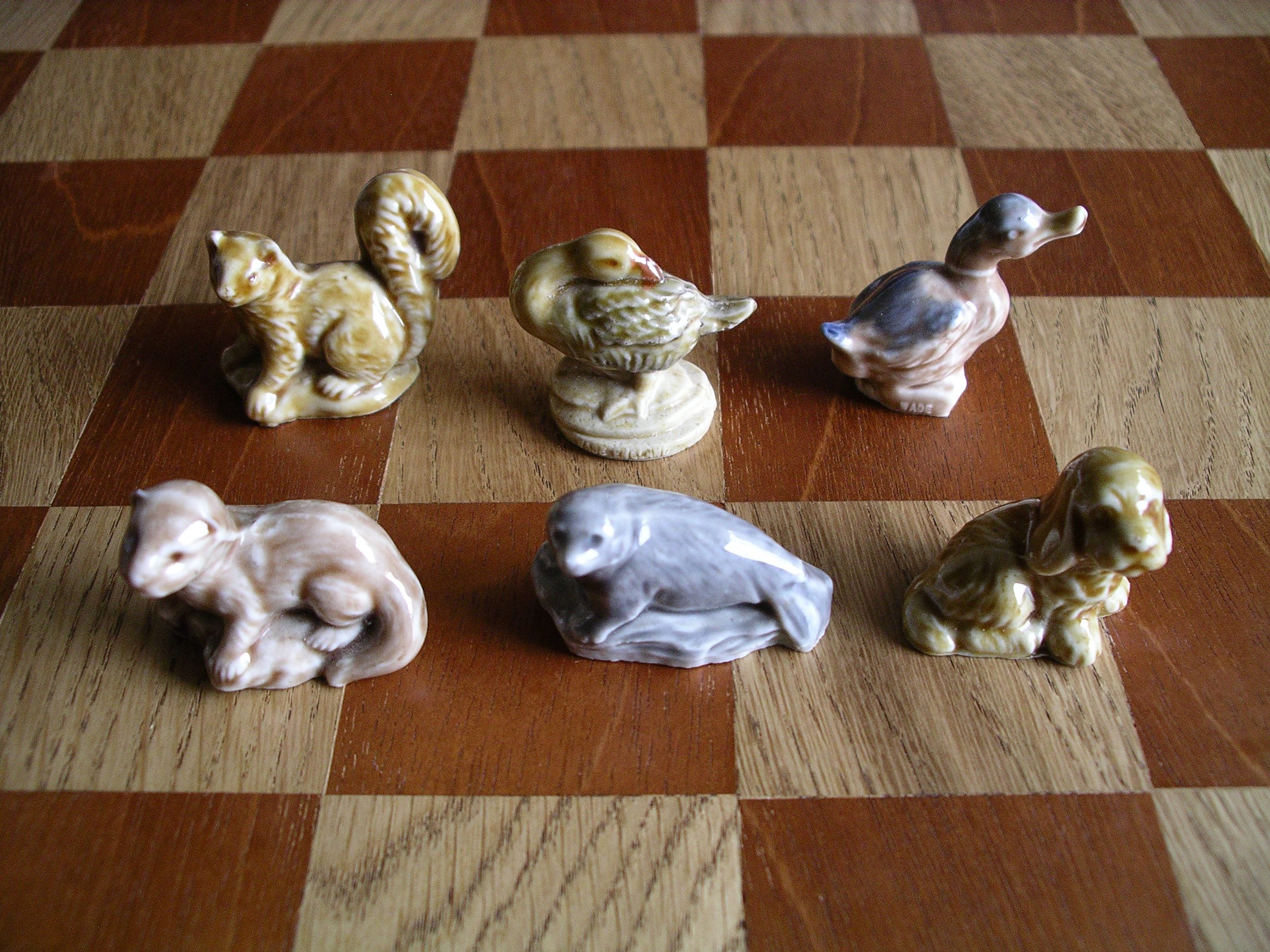 Photo taken by me of 6 wade whimsies on 4 Oct 2006. They are placed on a chess board with squares that are exactly 5cm square.